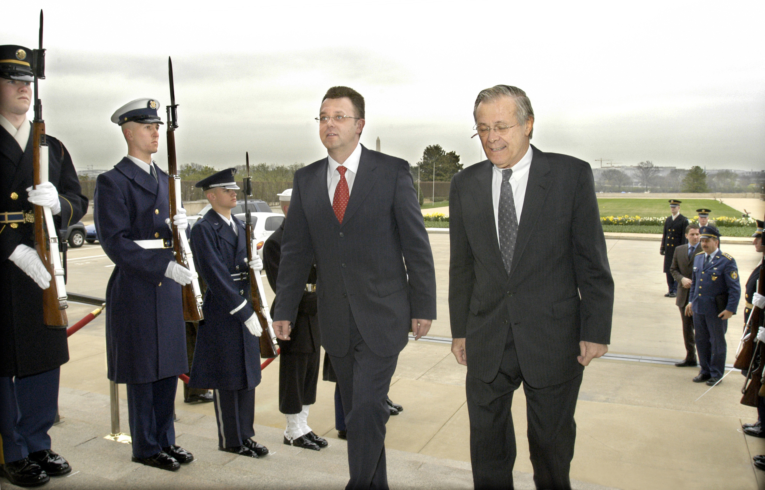 Slovakia's Minister of Defense Juraj Liska (left) is escorted through an honor cordon and into the Pentagon by Secretary of Defense Donald H. Rumsfeld (right) on March 30, 2004. Liska who was joined by the ministers of defense of Latvia and Lithuania, two other new NATO members, met with Rumsfeld to talk informally about NATO membership and the world security outlook.